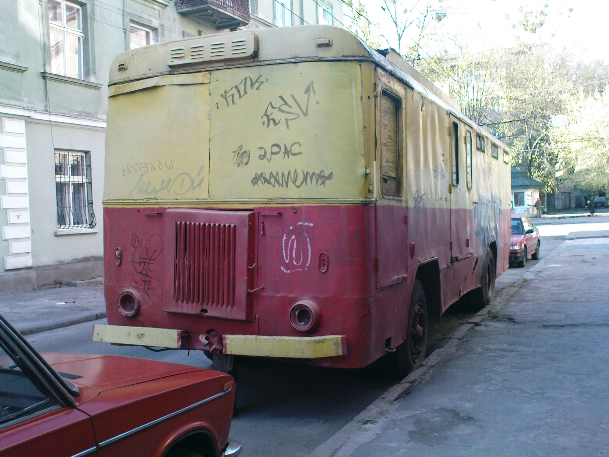 Bumbeloved freight KTG 1 trolleybus in Lviv, Ukraine.